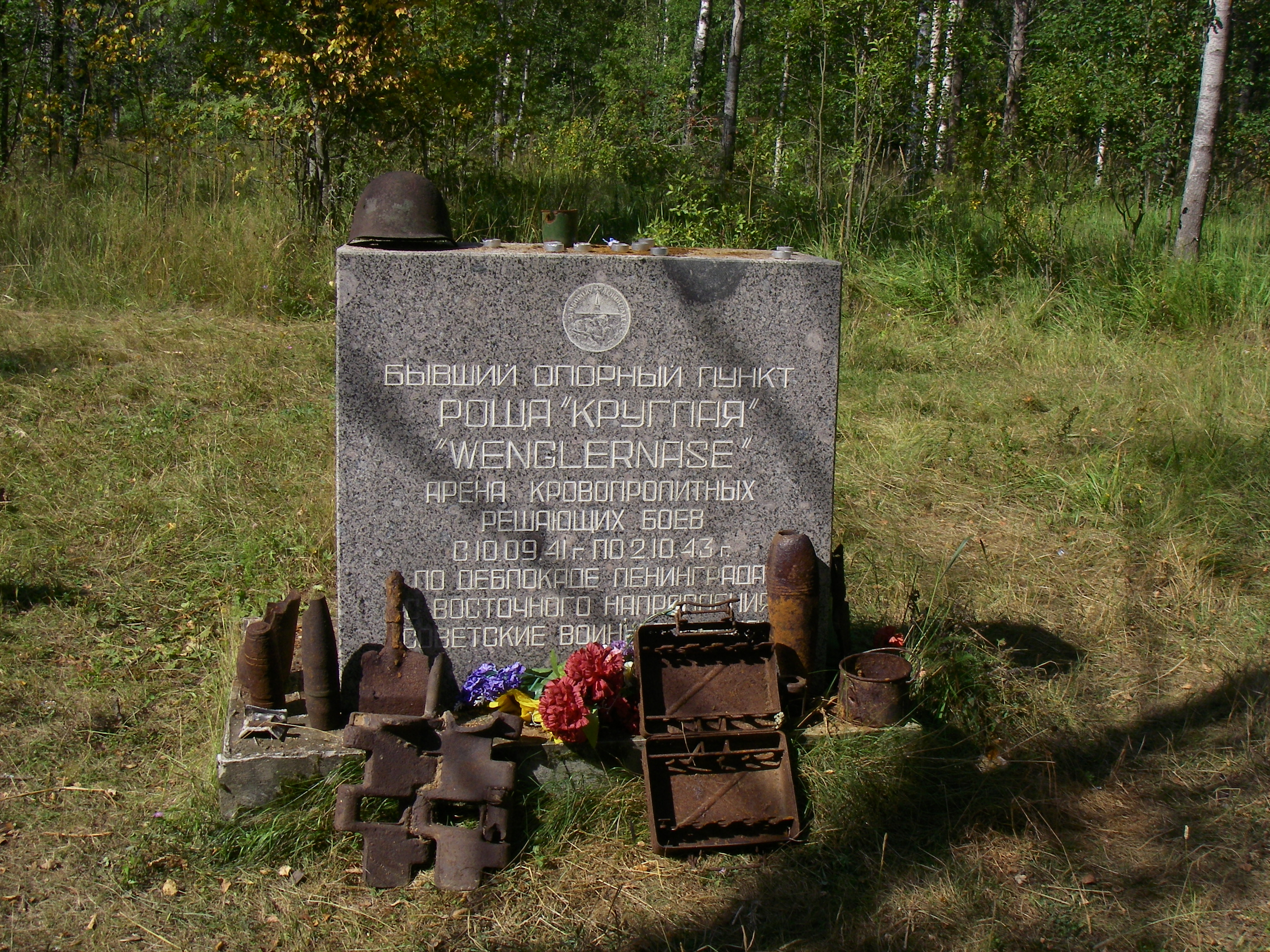 The “Wenglernase” memorial on the Sinyavino Heights